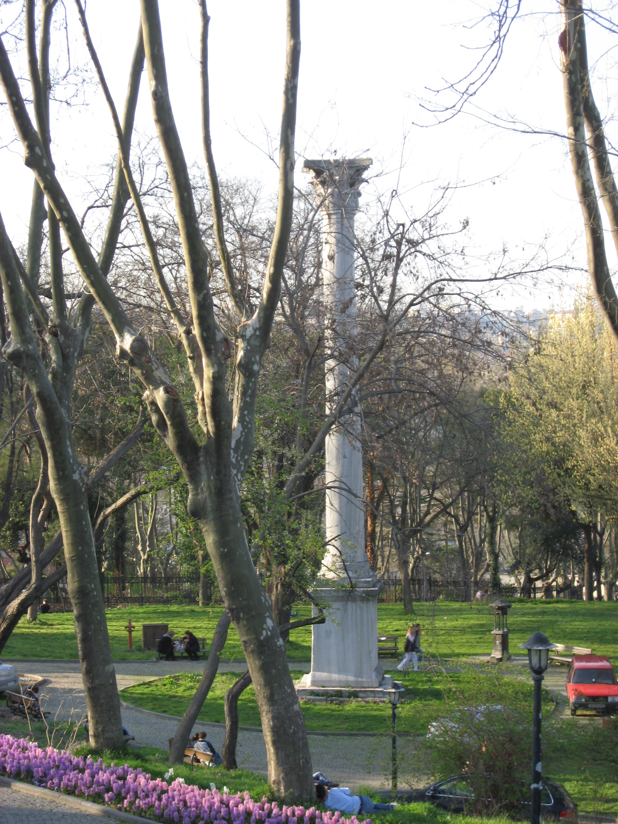 The Column of the Goths in Gülhane Park, Istanbul, commemorating a Roman victory over the Goths.